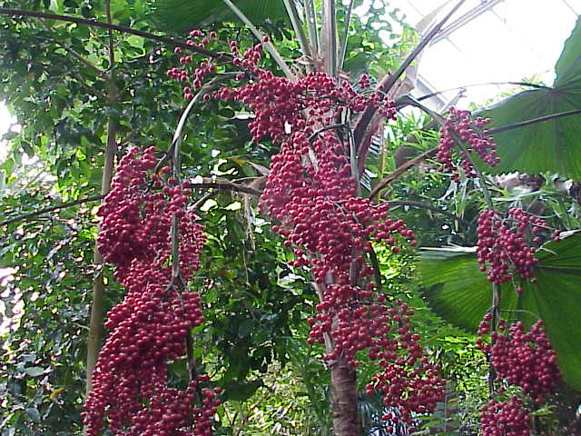 Species: Licuala grandis Family: Arecaceae Image No. 5